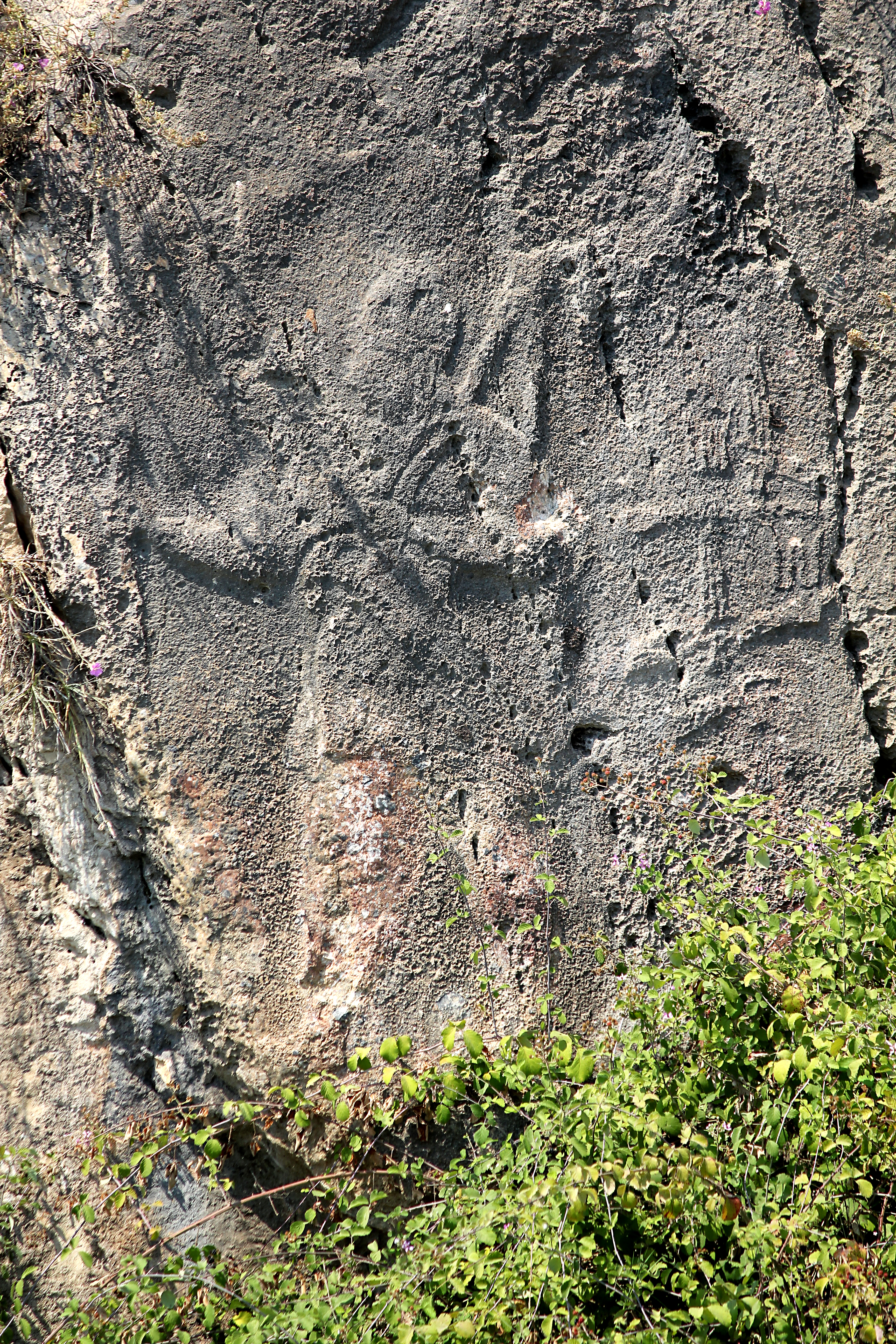 Hittite Luwian hieroglyph relief. On a rock formation in Osmaniye Province, southwestern Mediterranean Turkey.